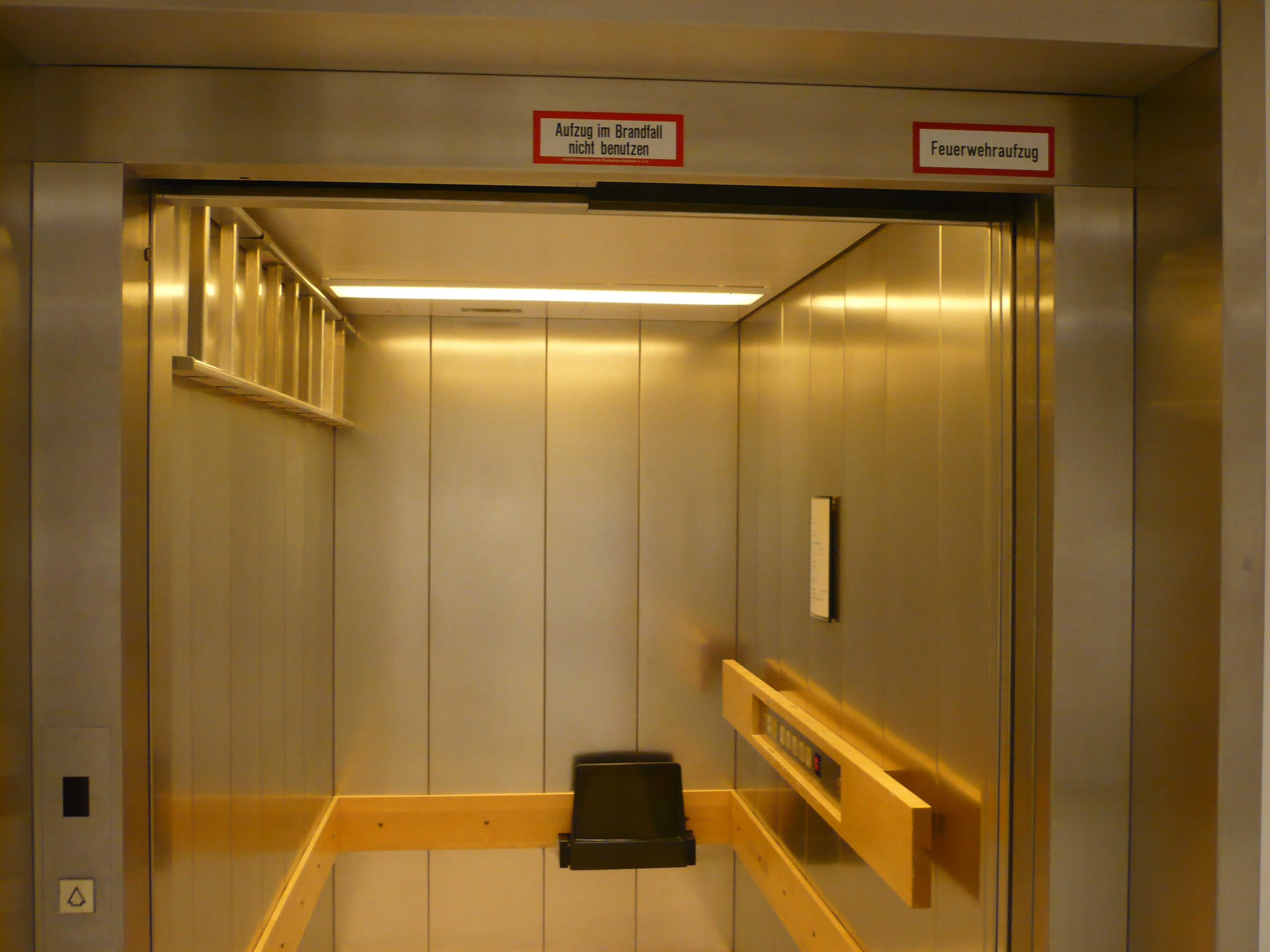 A firemen's lift, Germany